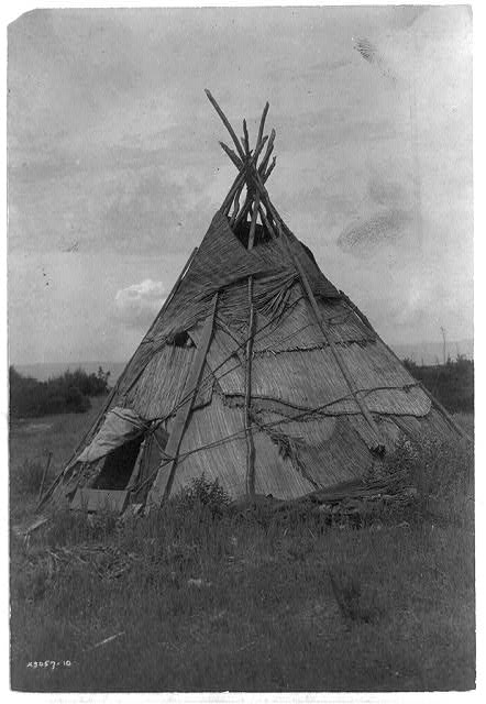 Photograph shows reed mat covered tepee in grassy field, Washington. Yakima.